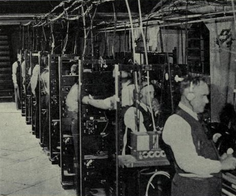 Personnel operating the eight optical sound recording machines in the basement at the Academy of Music in Philadelphia during the recording of the soundtrack to Fantasia.